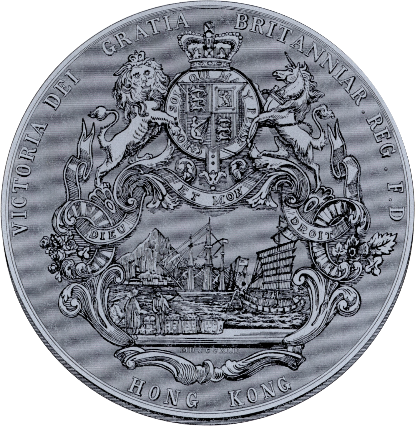 The Victorian Seal of Hong Kong